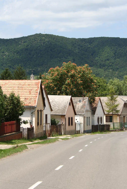 Hosszúhetény, Hungary